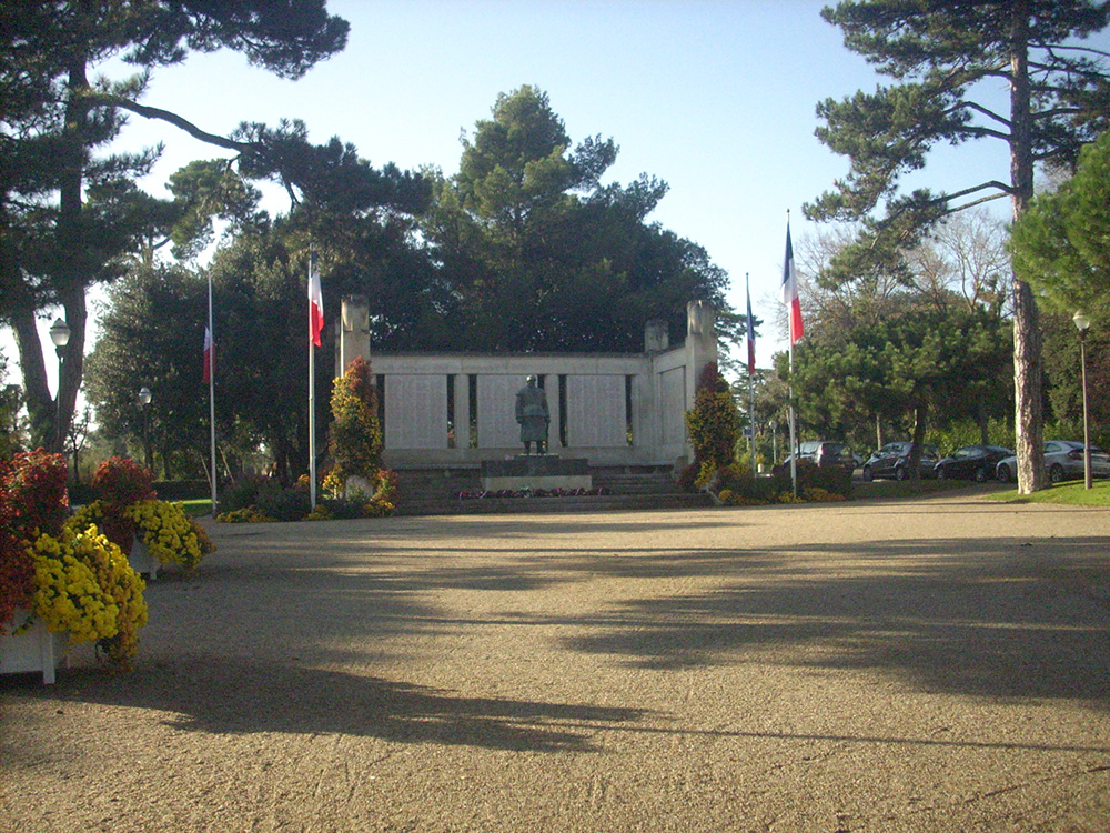 War memorial in La Rochelle, Charente-Maritime, France